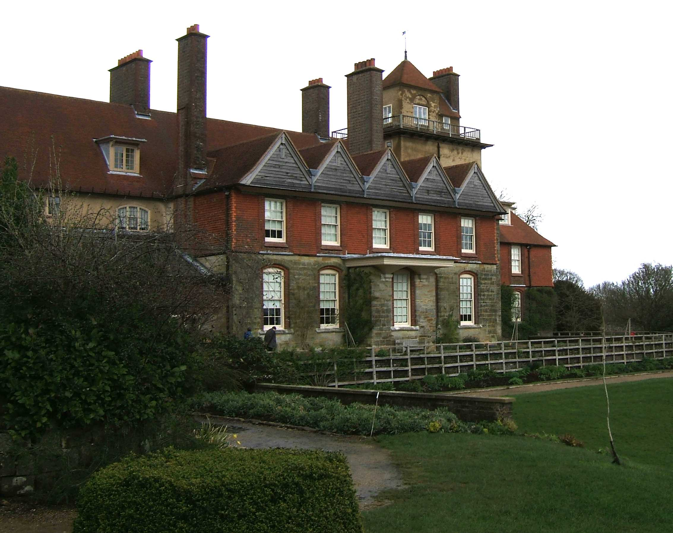 Exterior view of Standen.